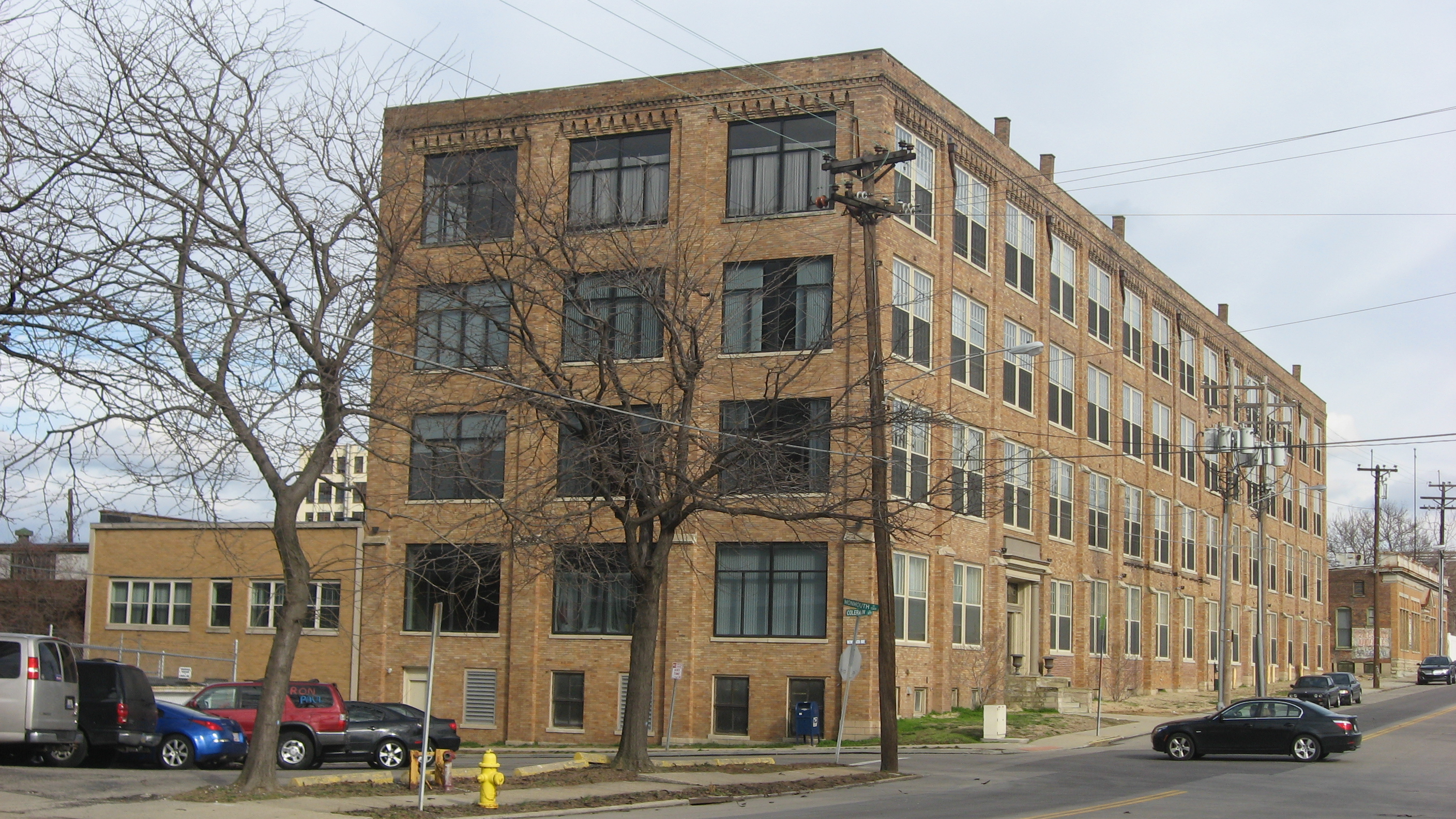 View from the southwest of the Oesterlein Machine Company-Fashion Frocks, Inc. Complex, located at 3301 Colerain Avenue and 1326 Monmouth Avenue in the Camp Washington neighborhood of Cincinnati, Ohio, United States. Built in 1918 and since converted into the American Sign Museum, the complex is listed on the National Register of Historic Places.